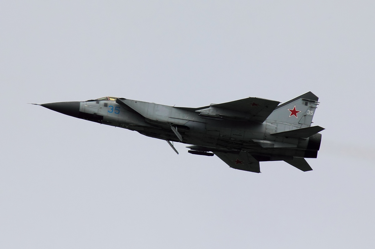 Russian Air Force MiG-31B